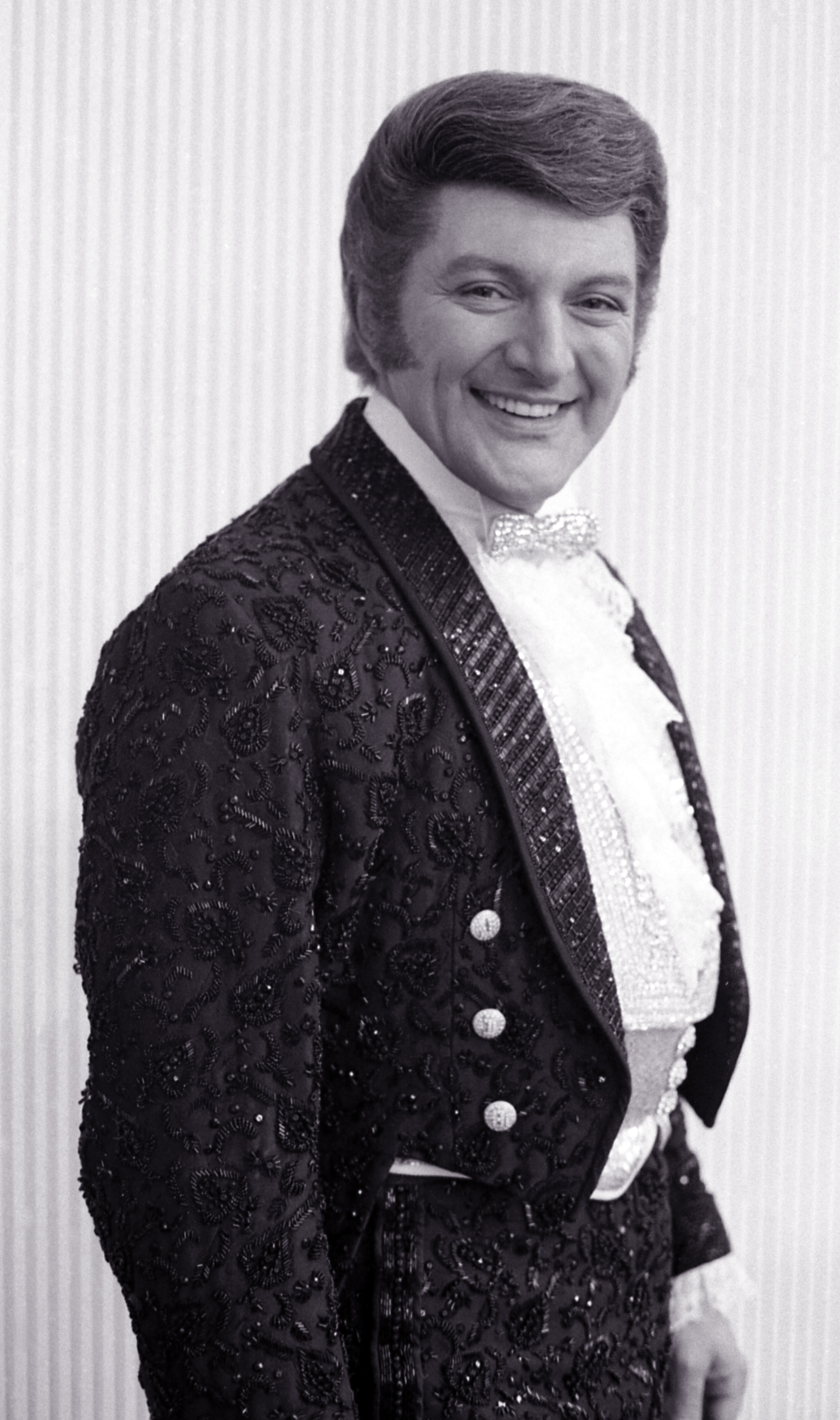 Liberace